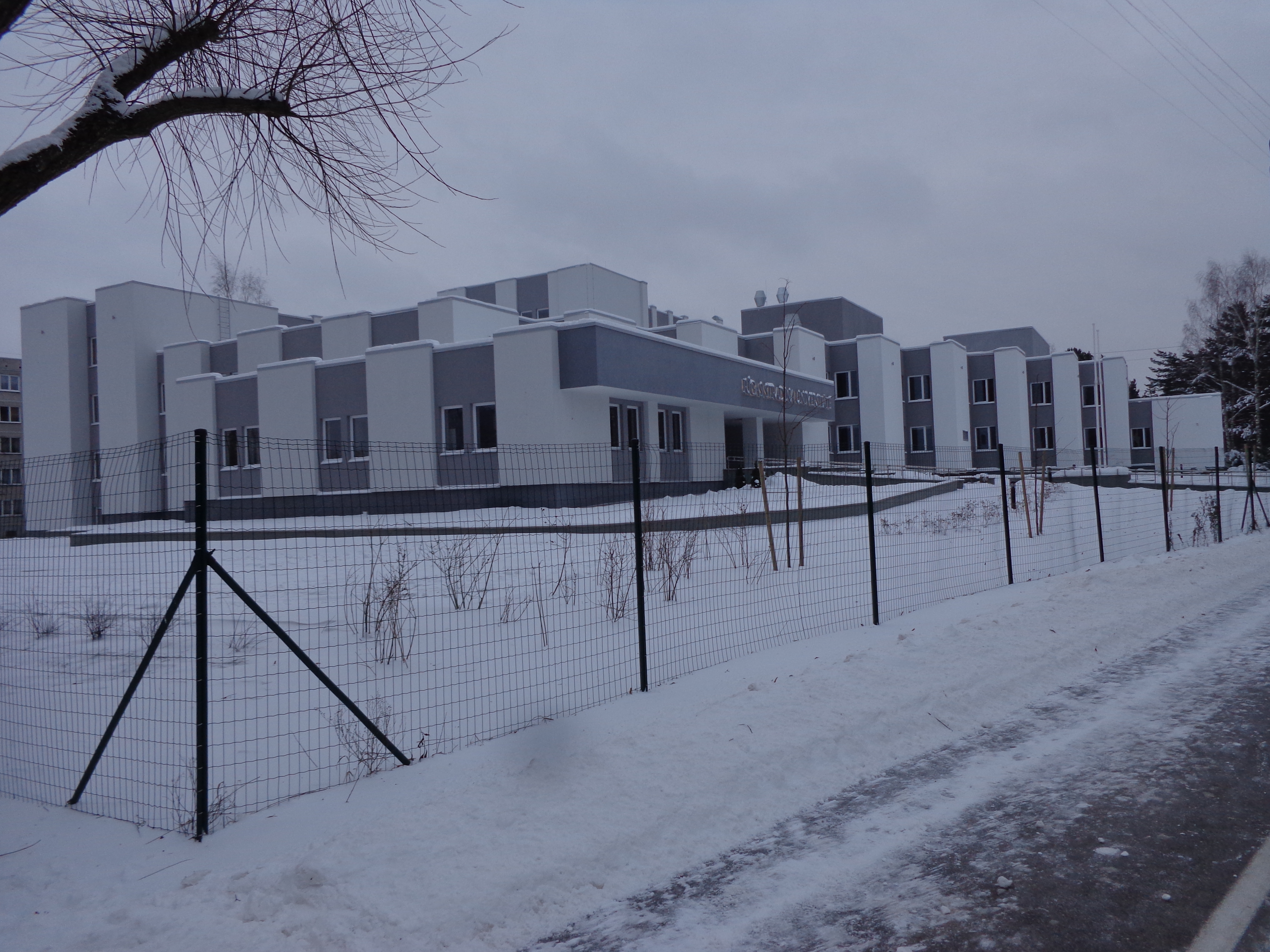 Riga Stradiņš University (new building), on Anniņmuižas bulvāris 26a. Faculty of Rehabilitation RSU.